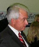 John Cox at the Republican Party of Iowa's Lincoln Day Dinner -- April 14, 2007 in Des Moines. Read coverage